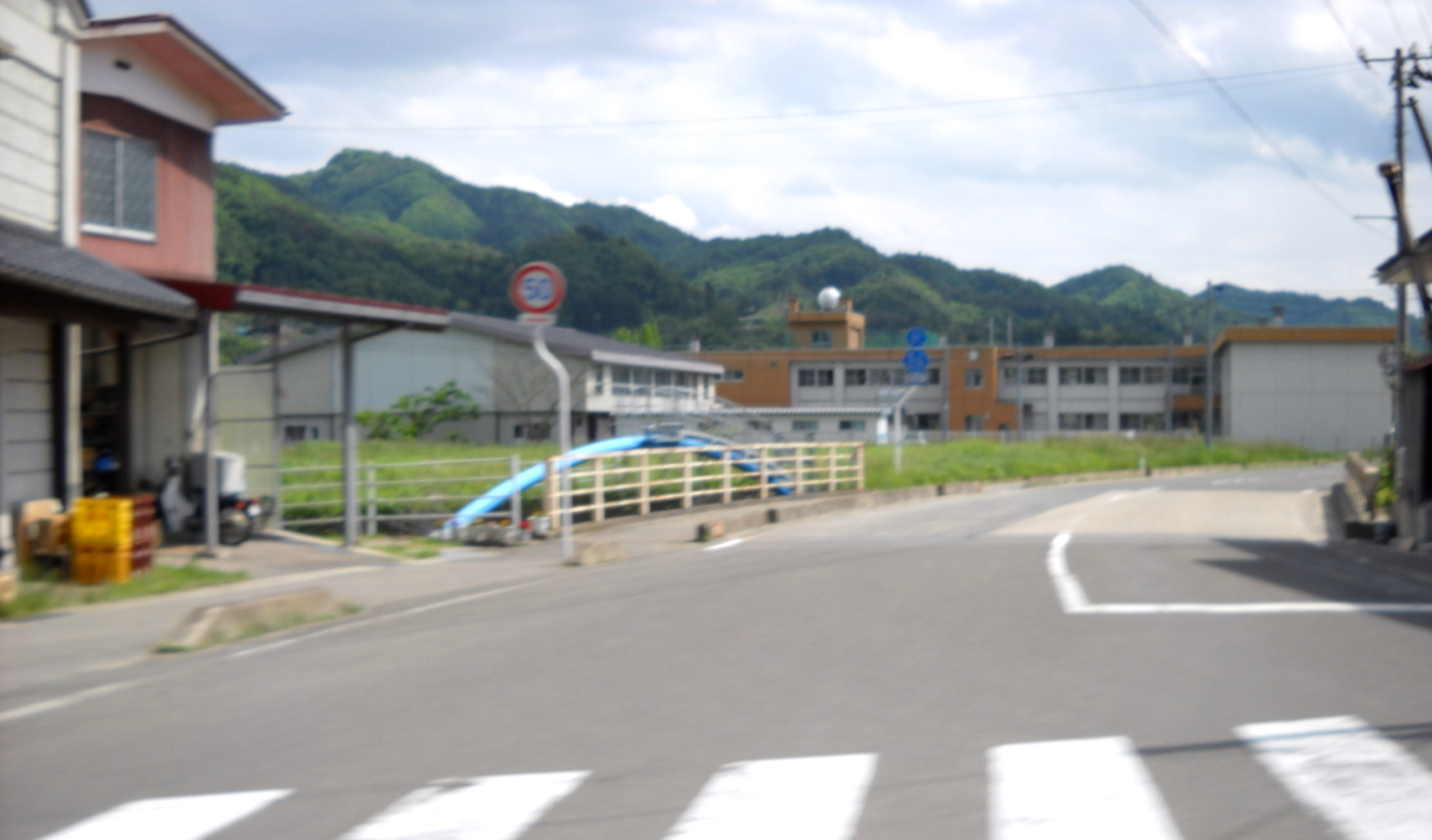 Start of Fukushima prefectural road route 51, Date city, Fukushima pref., Japan